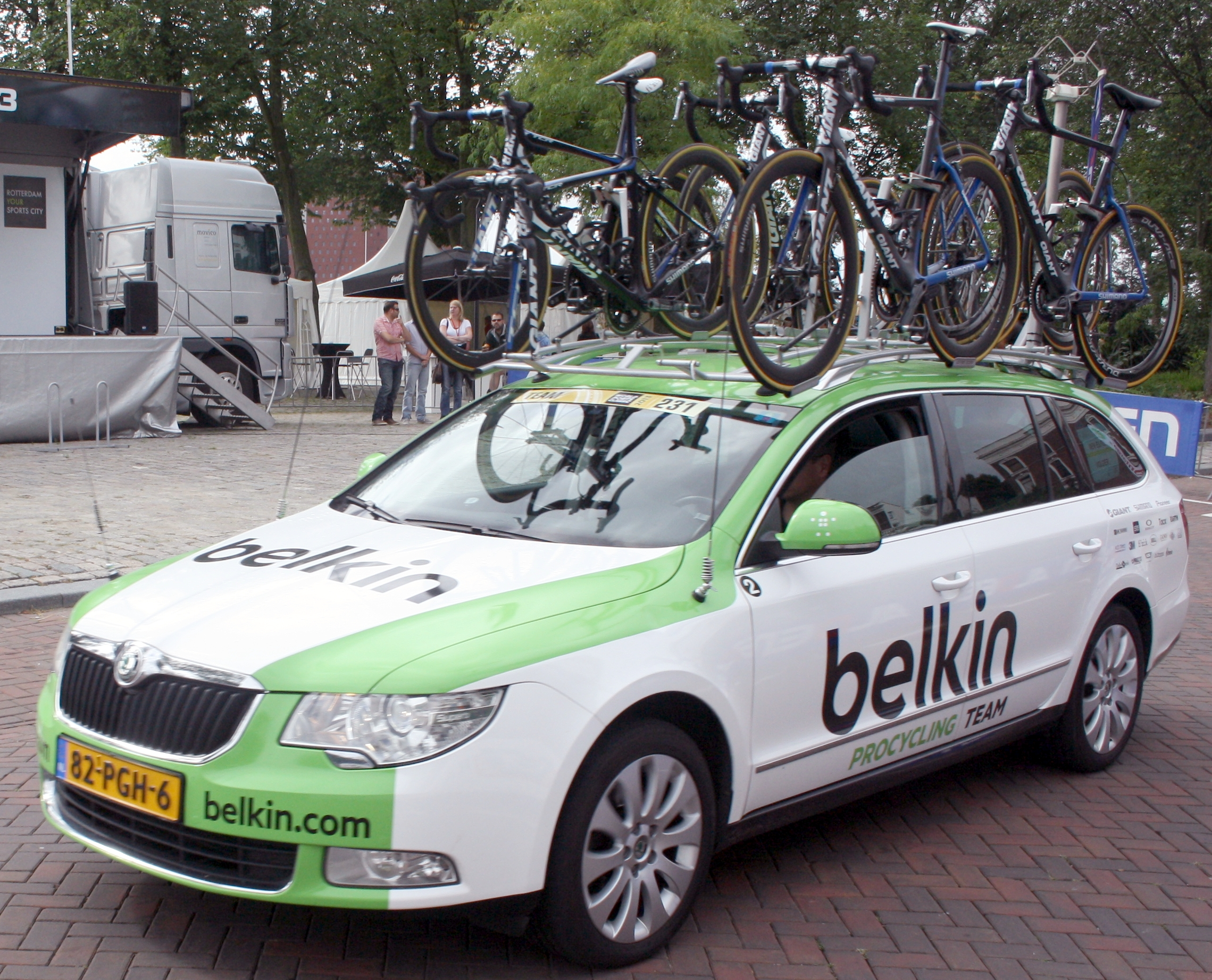 Belkin team car before the start of stage 2 of the World Ports Classic 2013